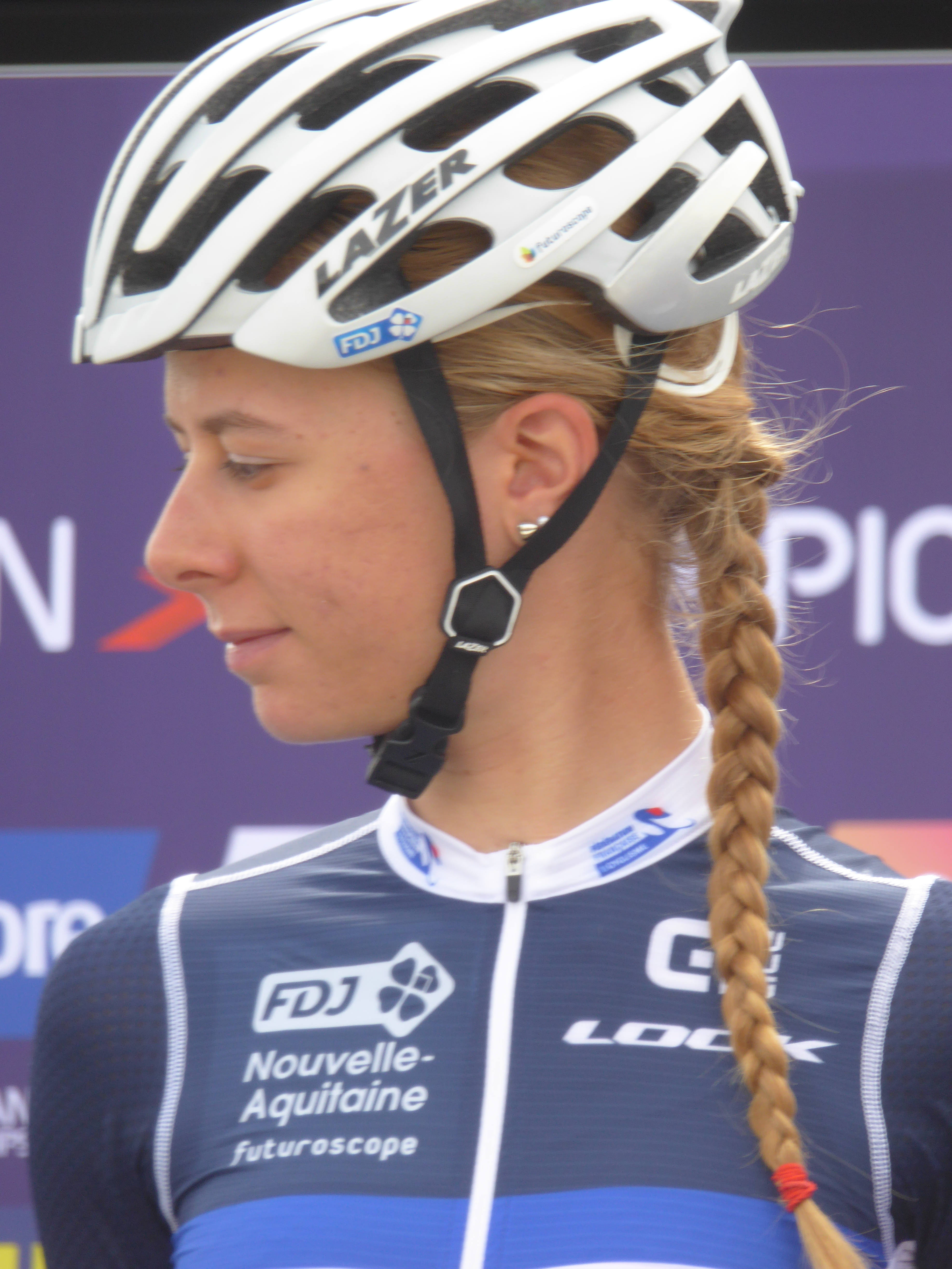 Victorie Guilman (France), prior to the women's road race at the 2018 UEC European Road Cycling Championships in Glasgow.